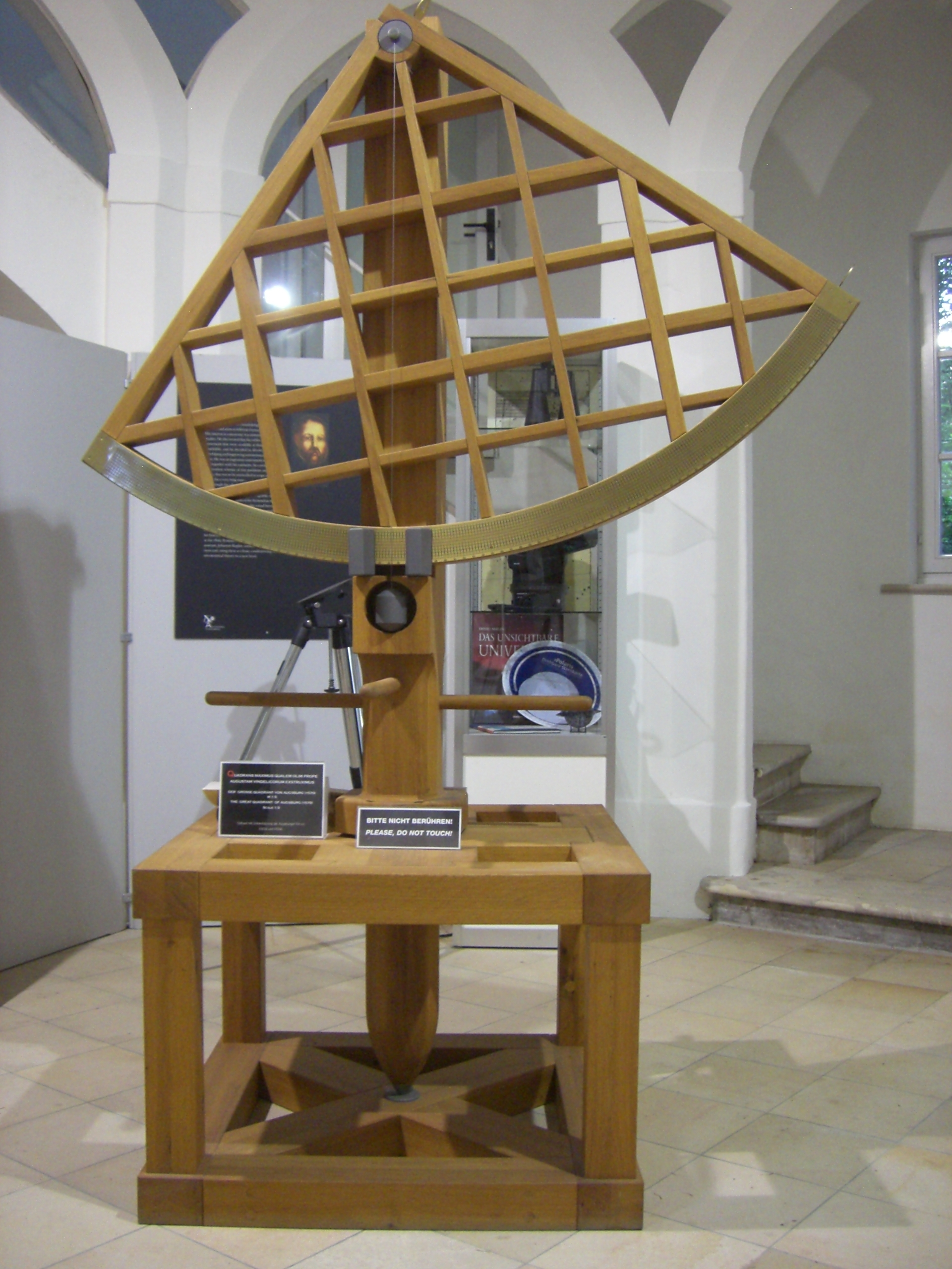 Smaller scale reconstruction of the Augsburger Quadrant in Römerturm in Göggingen